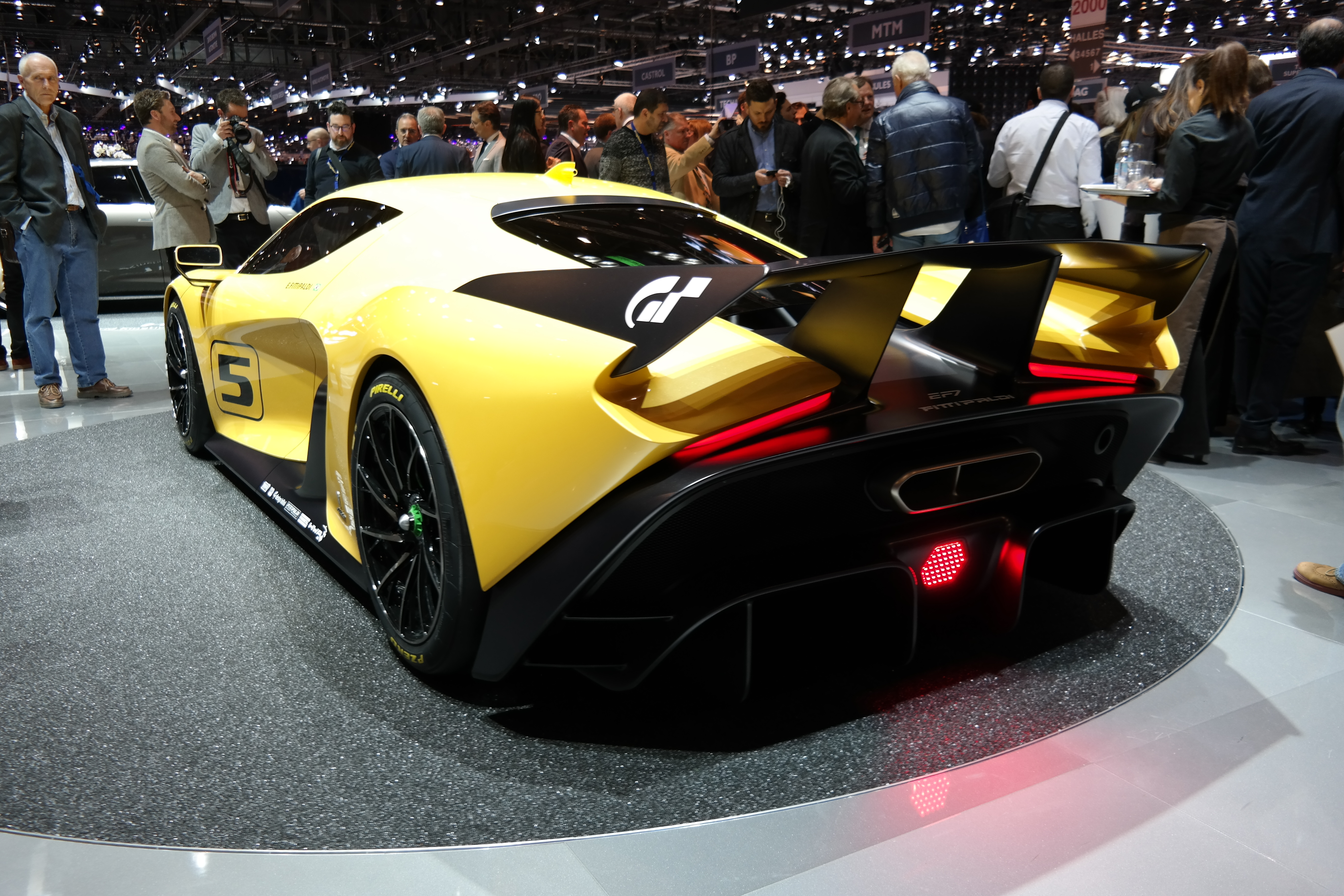 Geneva Motor Show 2017 (photo taken on the first press day)